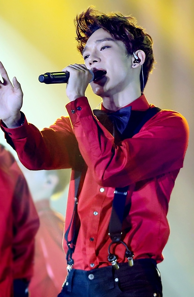 Chen at the SMTown Week on December 24, 2013.